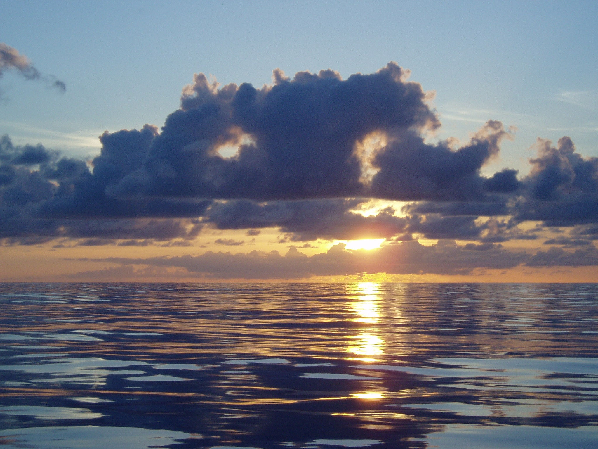 A tropical sunset over a placid sea. Hawaii, Papahanaumokuakea Marine National Monument.